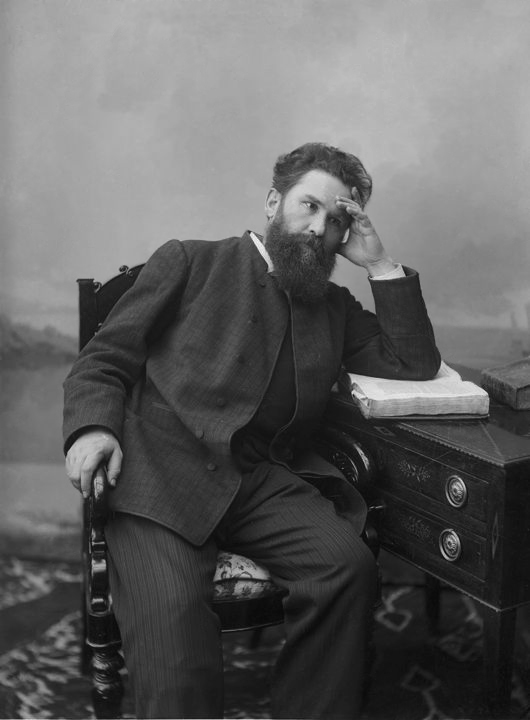 Vladimir Korolenko